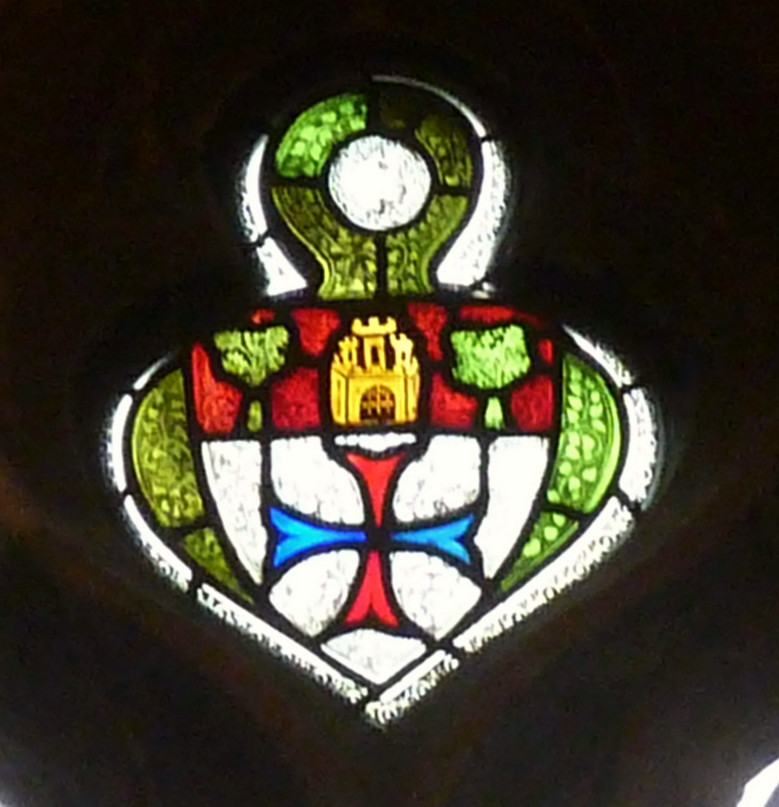 Stained glass windows in the chancel of St Roberts Church, Pannal, North Yorkshire, England. It is understood to date between 1319 when the chancel was built by Trinitarian monks, and 1539 when the Trinitarian Order was dissolved.